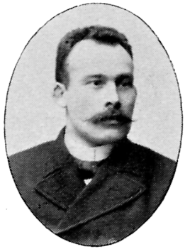 Image scanned from the book "Svenskt Porträttgalleri XX - Arkitekter, Bildhuggare, Målare m.fl. " ("Swedish Portrait Gallery XX - Architects, Sculptors, Painters, ") published 1901